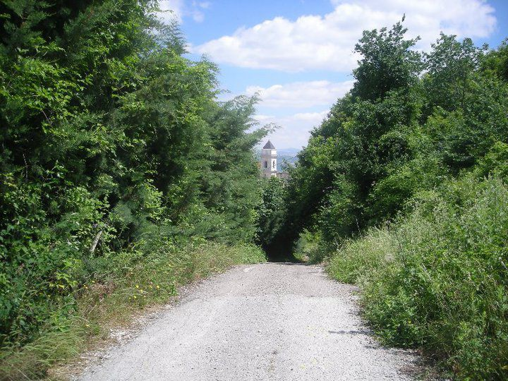 View of the Church of Santa Maria delle Grazie in Guardia Lombardi from Monte Cerreto